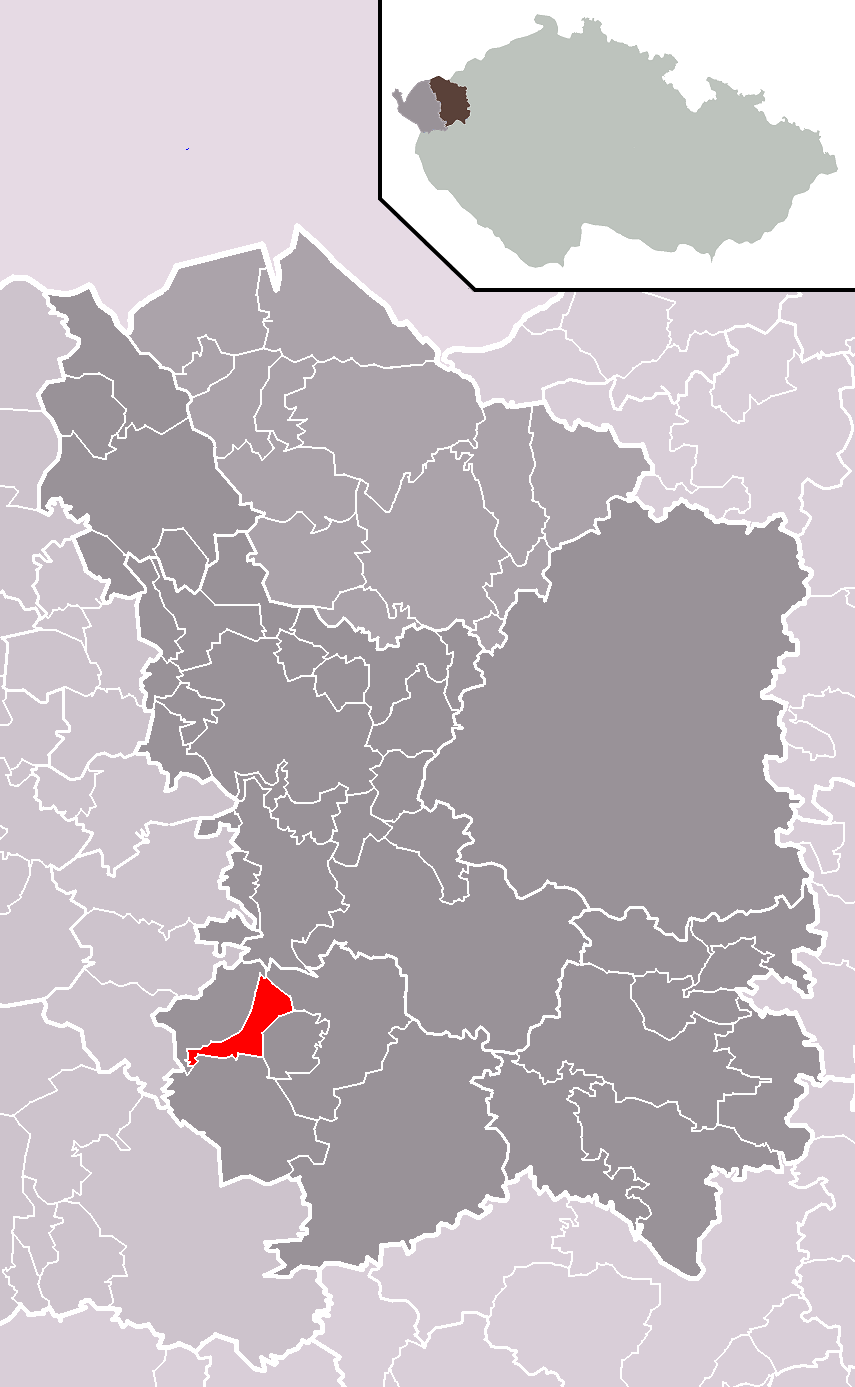 Location of Chodov municipality within Karlovy Vary District and administrative area of Karlovy Vary as a Municipality with Extended Competence.